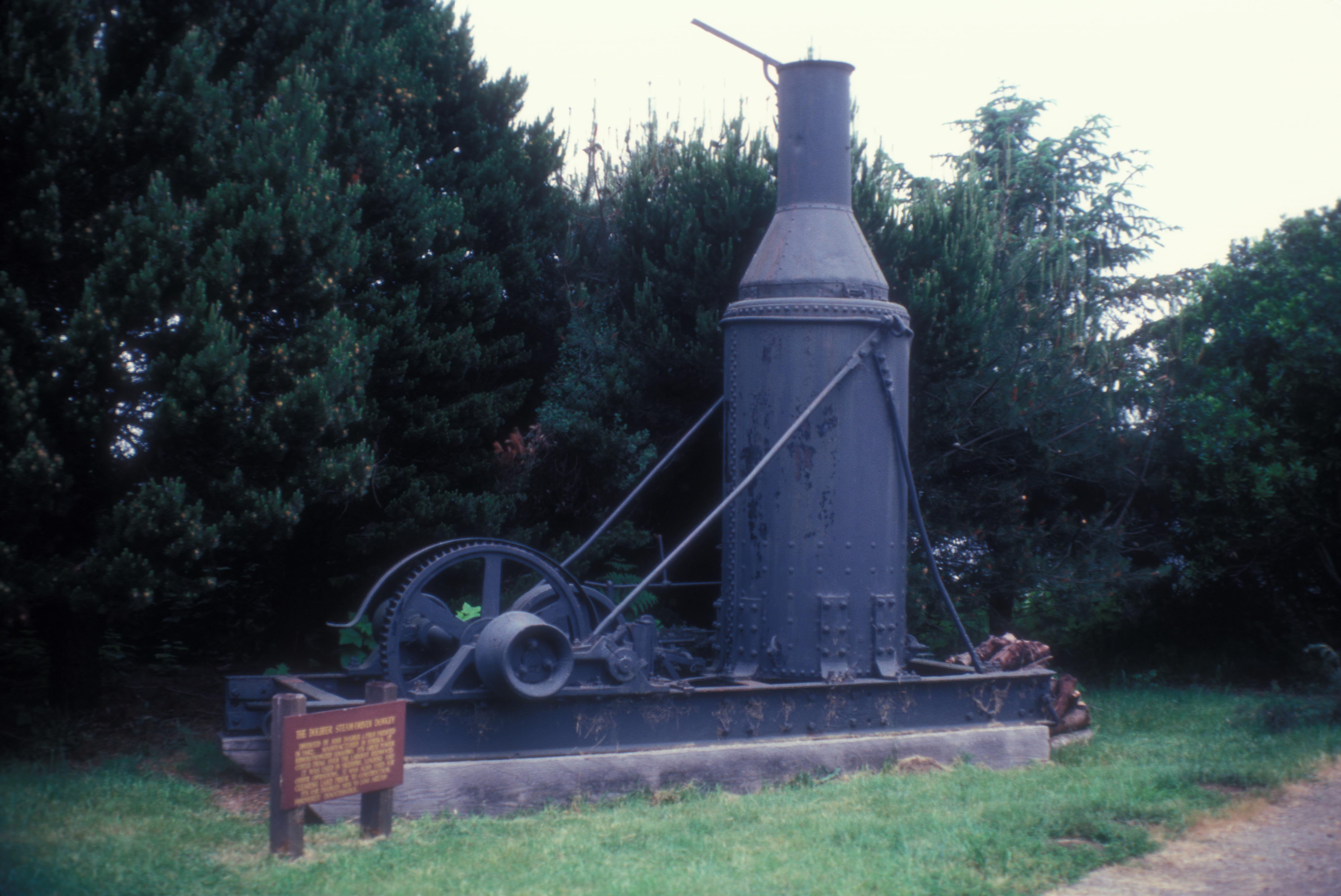 STEAM POWERED DONKEY'S WHICH COULD MOVE ALONG THE GROUND AND HAUL OUT LOGS